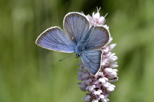 Picture taken in Commanster, Belgian High Ardennes . Species: Polyommatus semiargus male